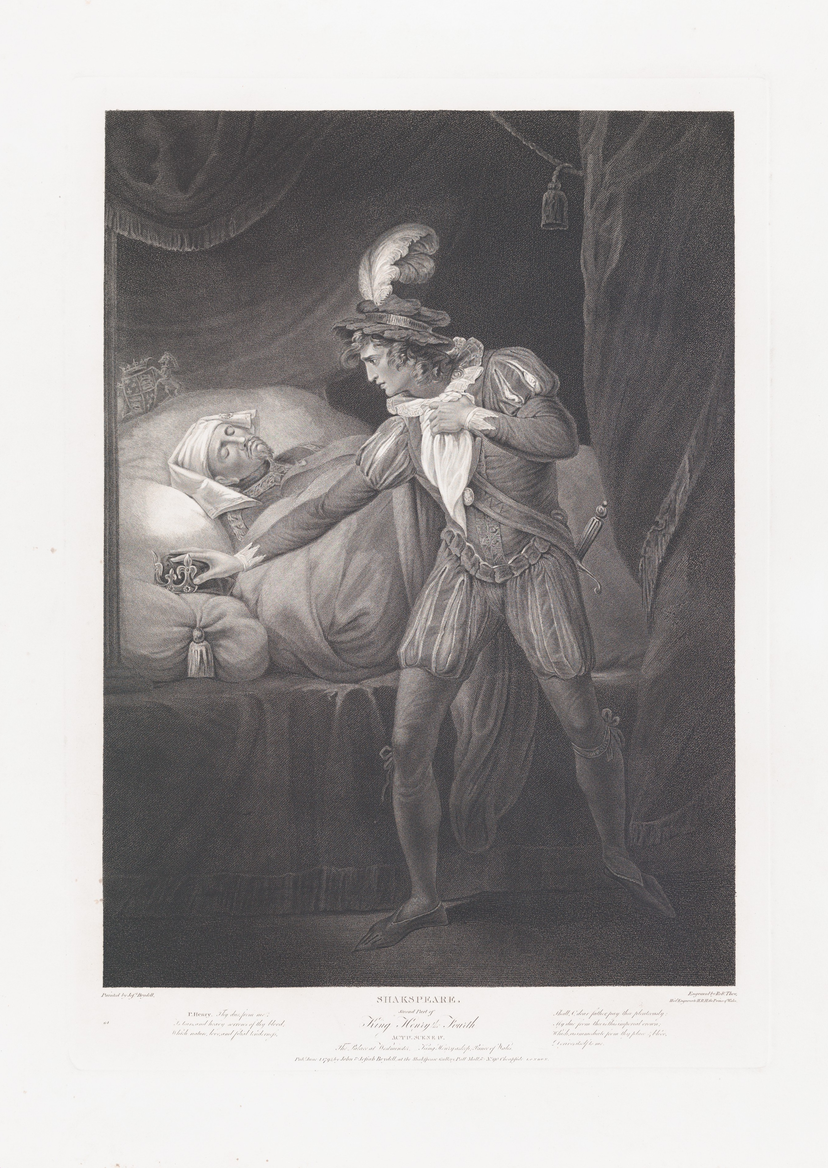 Print; Prints